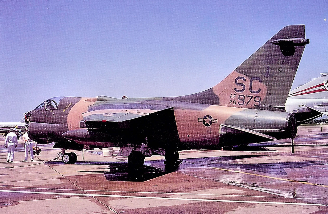 157th Tactical Fighter Squadron A-7D-8-CV Corsair II 70-0979 1972: Aircraft delivered to 355th Tactical Fighter Wing, Nellis AFB, NV (c/n D-125) Transferred to 157th Tactical Fighter Squadron, SC Air National Guard, 1975 Transferred to 149th Tactical Fighter Squadron, VA Air National Guard, 1983 Transferred to 162d Tactical Fighter Squadron, OH Air National Guard, 1991 Transferred to AMARC as AE0203 Sep 1, 1992. Disposition: Apr 22, 1998 / To Fritz Enterprises, Taylor, MI. (Actually to HVF West yard, Tucson). Scrapped.